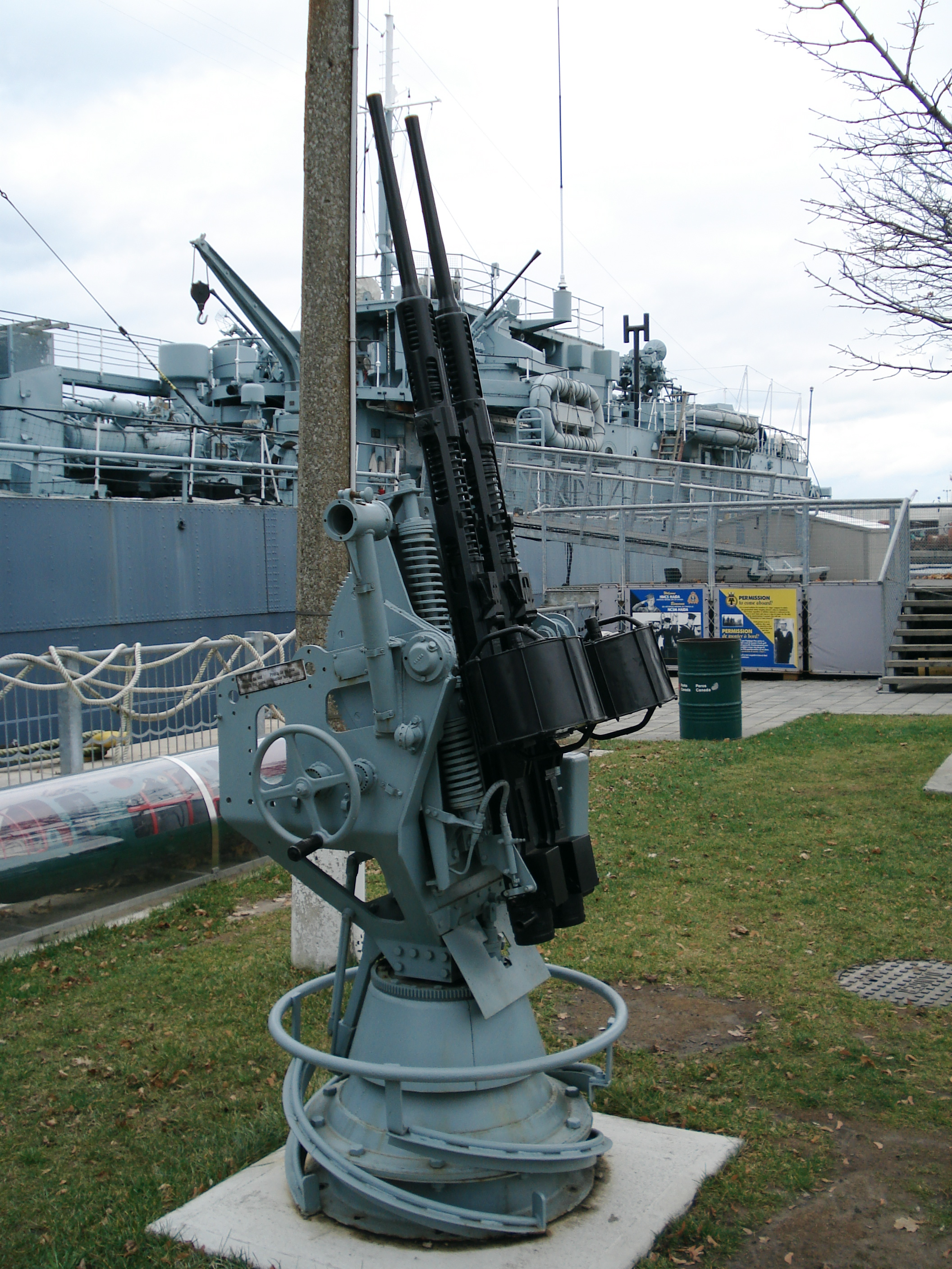 Twin 20 mm Oerlikon anti-aircraft gun. In the background: destroyer HMCS Haida moored as museum ship at Hamilton, Ontario. Photo taken on December 2, 2006. Source: Photo by me, User:Balcer.